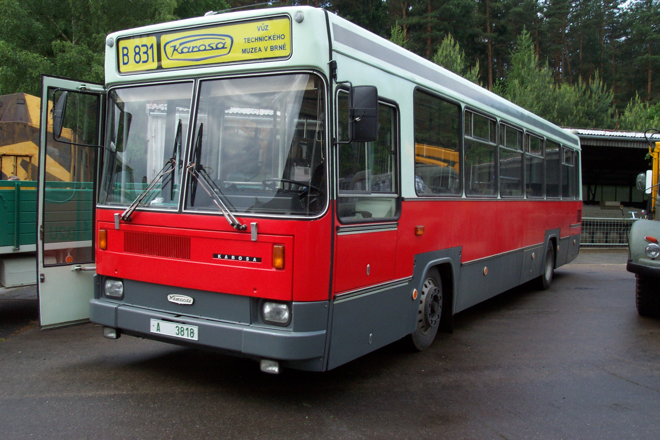 Bus type Karosa B 831 (manufactured 1988, only working vehicle of this type) in VTM Lešany museum